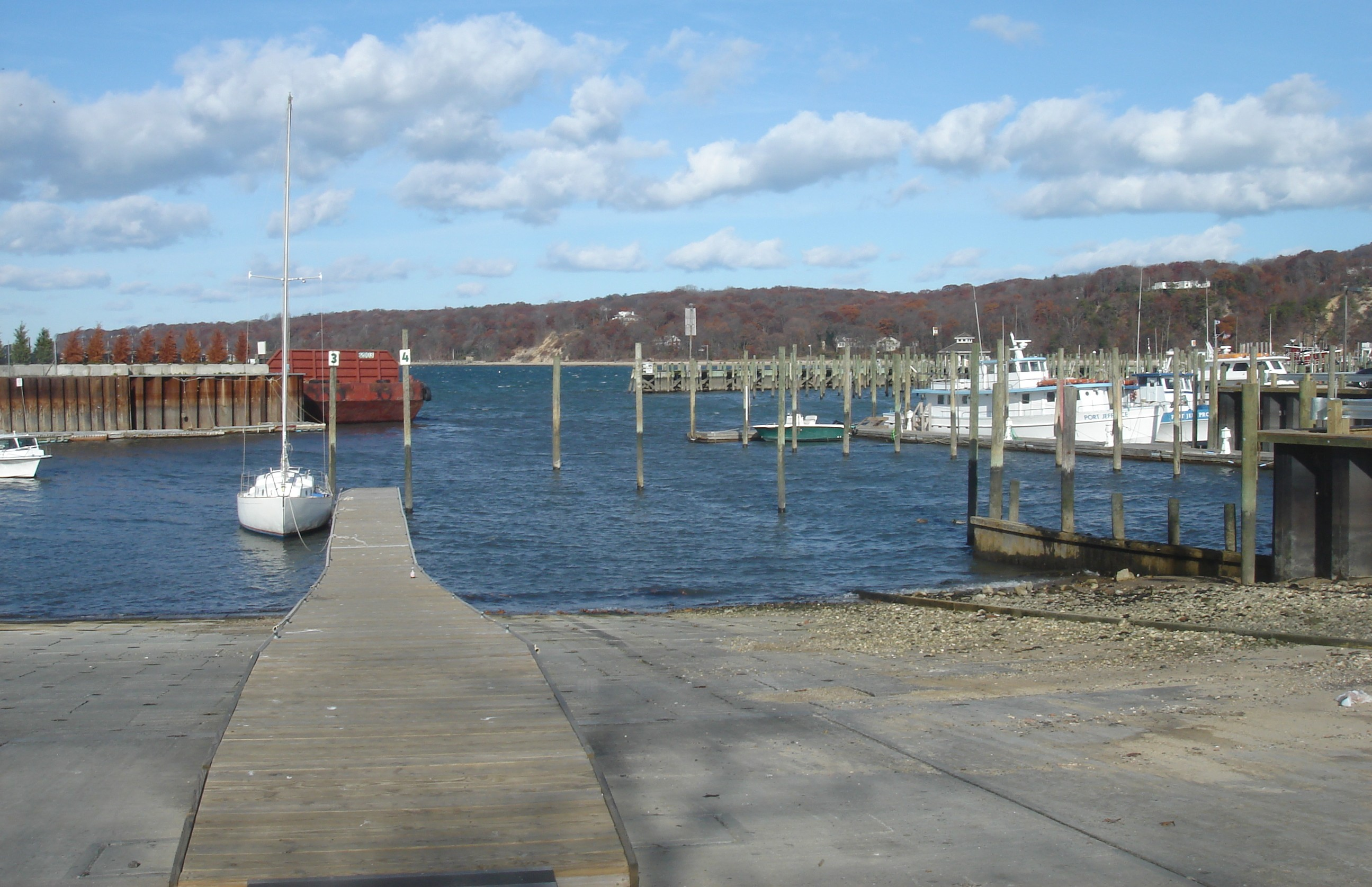 Harbor of Port Jefferson, Long Island.